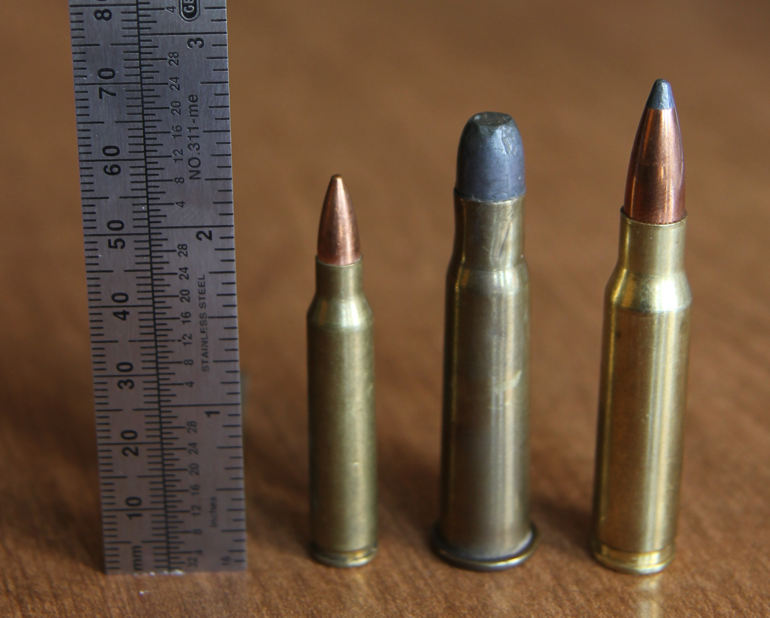 A .33 Winchester cartridge next to a metric/imperial ruler with .223 Remington and .308 Winchester cartridges for comparison.